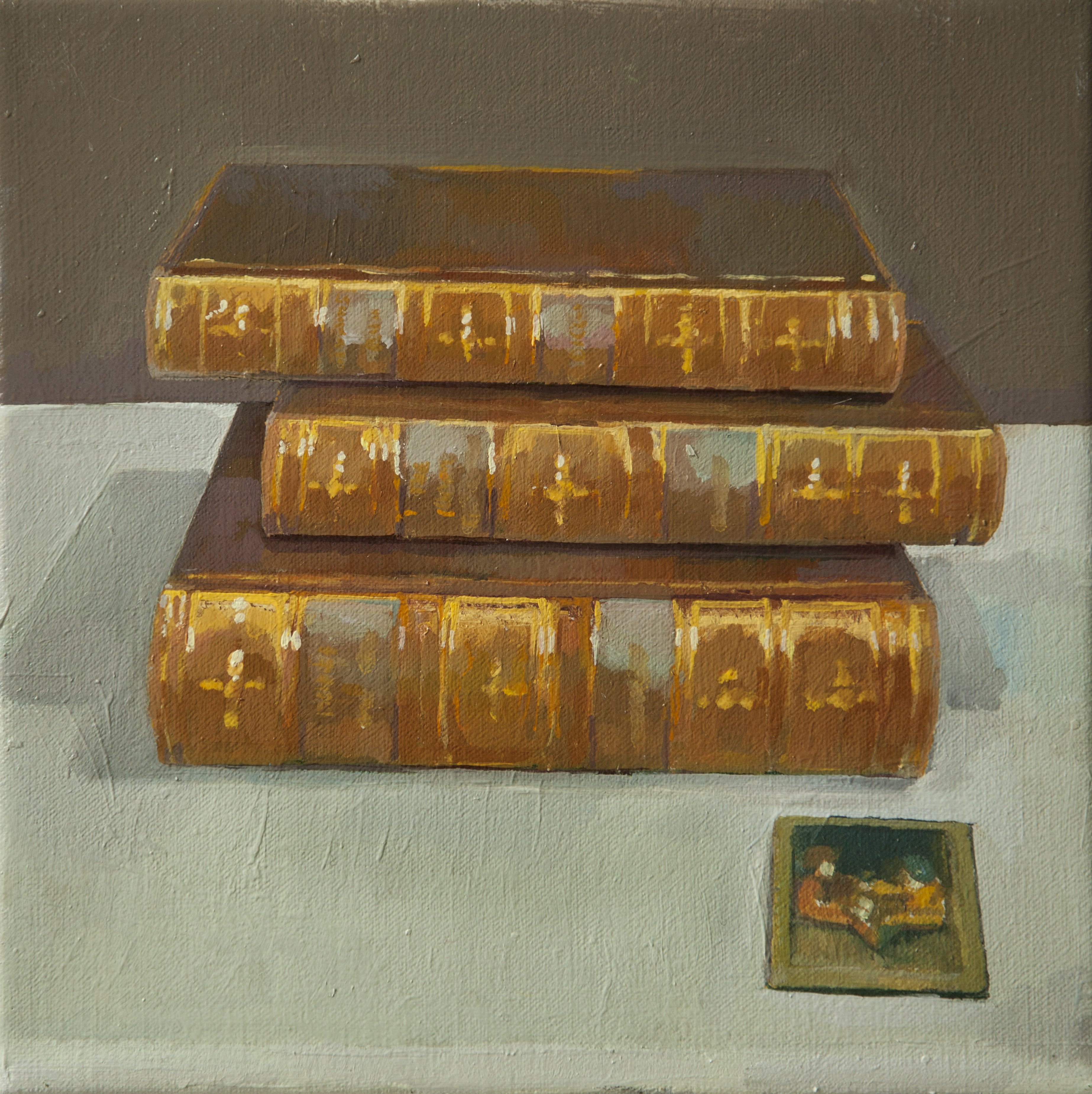 Dickens and the Card Players, 2011, 10x10, oil on canvas. By British-American artist Nancy Cadogan